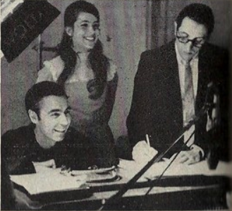 This work has been released into the public domain by its copyright holder, Cowles Communications, Inc.. This applies worldwide.In some countries this may not be legally possible; if so:Cowles Communications, Inc. grants anyone the right to use this work for any purpose, without any conditions, unless such conditions are required by law. This is a photo taken by Robert Lerner when working as a staff photographer of LOOK Magazine, and is part of the LOOK Magazine Photograph Collection at the Library of Congress. Their former owner, Cowles Communications, Inc, dedicated to the public all rights it owned to these images as an instrument of gift. Note: Cowles has expressed its desire that these images not be used for "trade or advertising purposes". However, this request cannot be meant as a legally binding copyright restriction on their re-use, as all the rights to this image were released; rather, it is a caution against the use of celebrity images to imply product endorsement, drawn from civil rights law, and is unrelated to copyright. See Personality rights . [1] Rogers screens the tape replay with Betty Aberlin and Johnny Costa